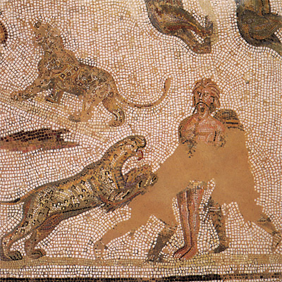 Damnatio ad bestias. Third-century AD mosaic in the Museum of El Djem (Tunisia).Criminals, themselves made beasts by their crimes, are offered up to wild animals in the arena.